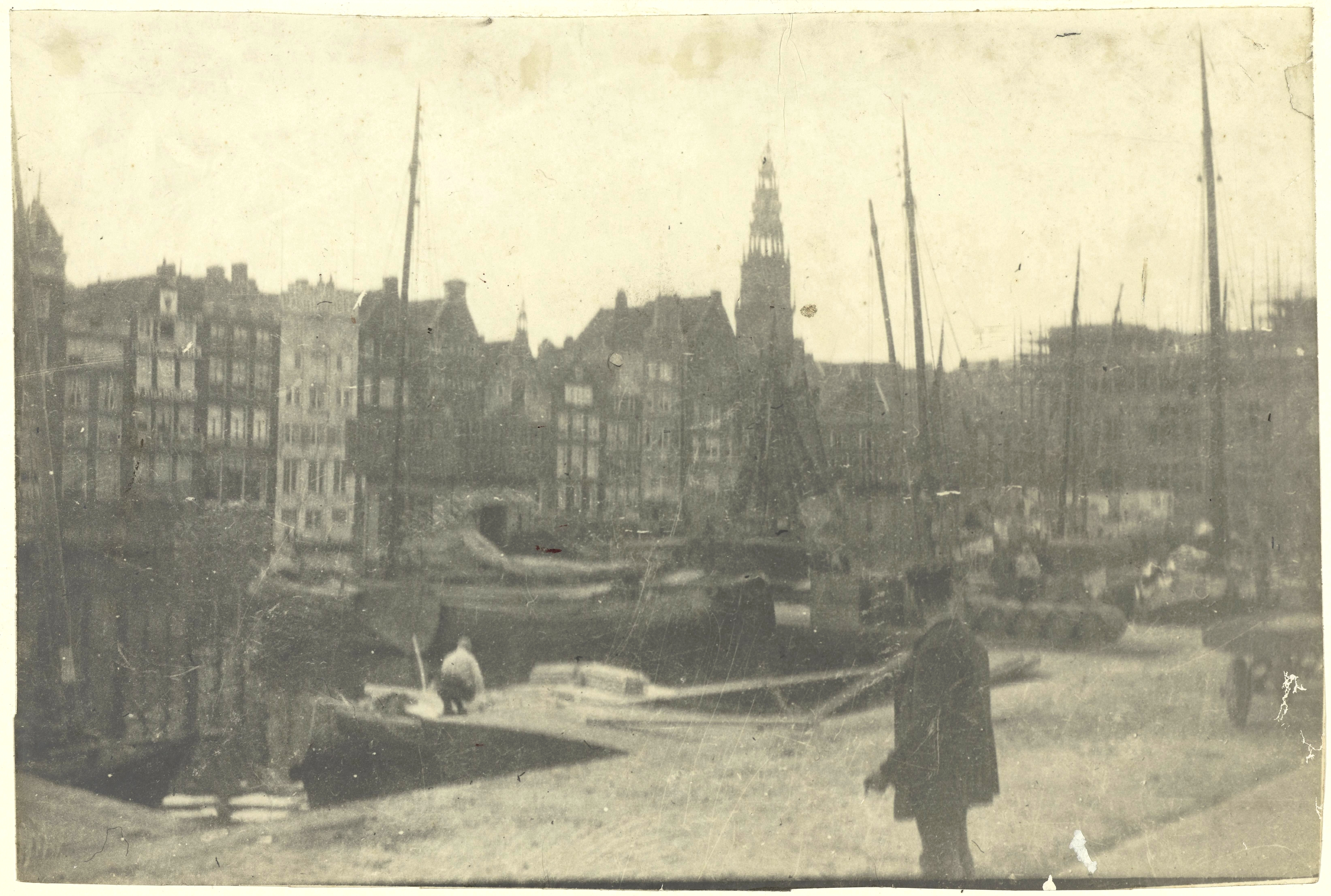 Schepen aan het Damrak